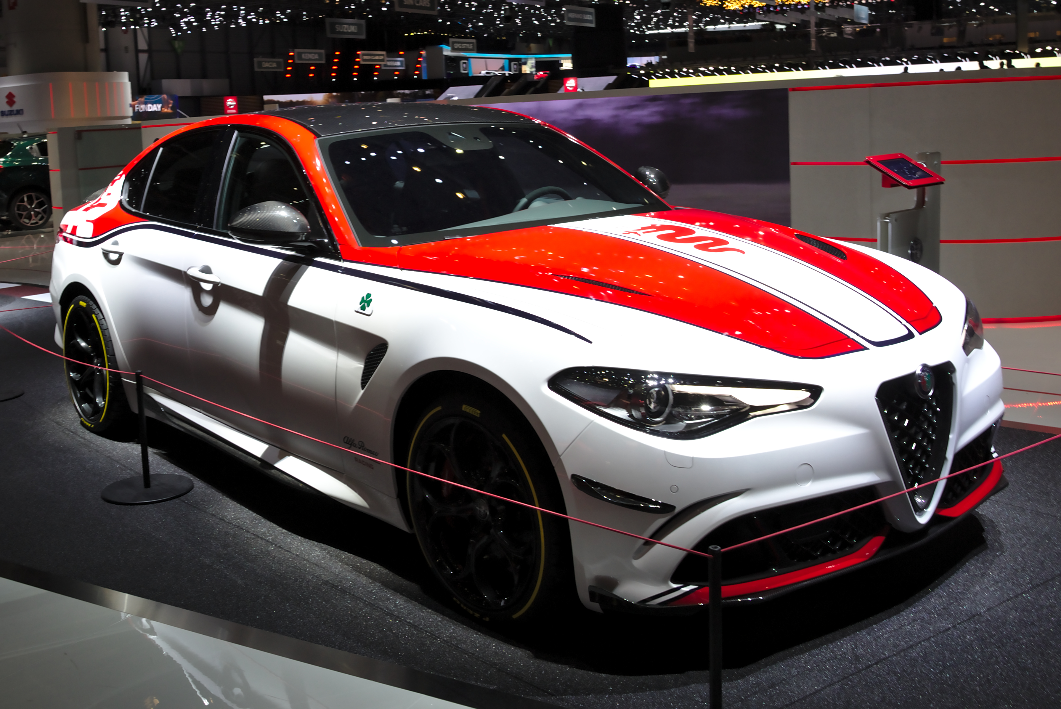 Alfa Romeo Giulia Racing at Geneva Motor Show 2019